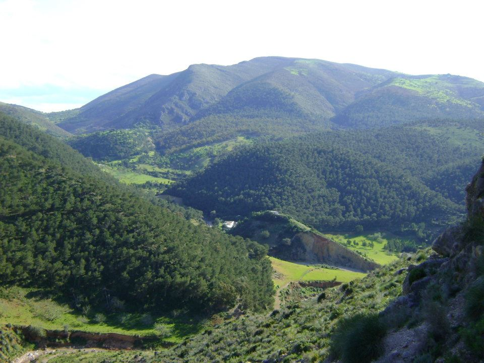 tikkit